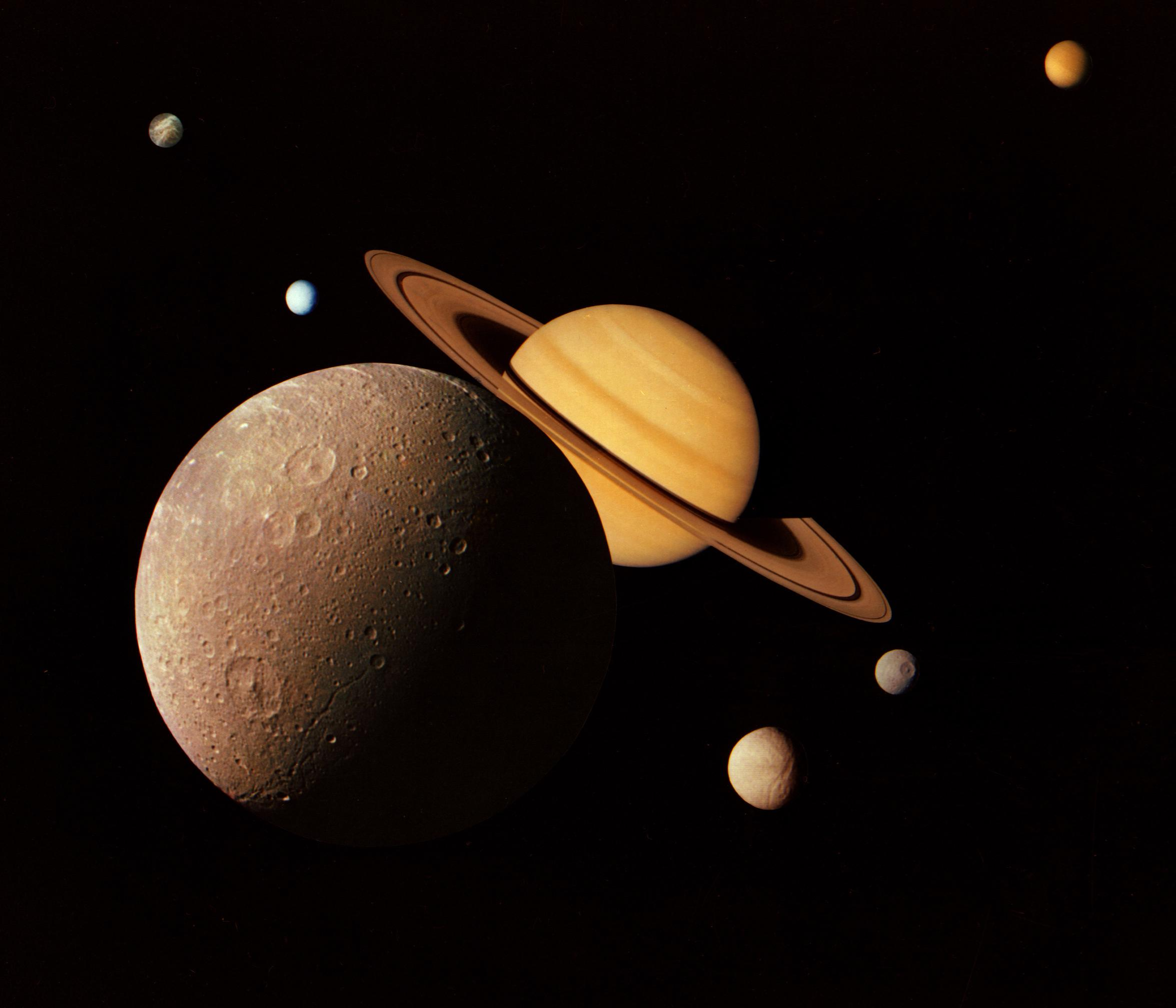 Montage of Saturn and several of its satellites, Dione, Tethys, Mimas, Enceladus, Rhea, and Titan. JPL image PIA01482: Saturn System Montage This montage of images of the Saturnian system was prepared from an assemblage of images taken by the Voyager 1 spacecraft during its Saturn encounter in November 1980. This artist's view shows Dione in the forefront, Saturn rising behind, Tethys and Mimas fading in the distance to the right, Enceladus and Rhea off Saturn's rings to the left, and Titan in its distant orbit at the top.